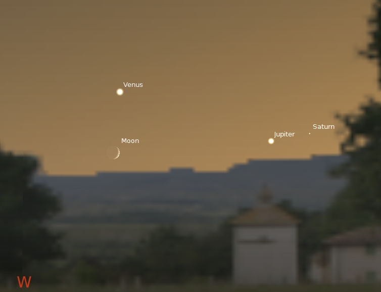 The image was generated using Stellarium, a planetarium program, and depicts the night sky to the West at Calais on 1 August 1802 at 9 p.m., the evening William Wordsworth and Dorothy Wordsworth arrived there on their visit. The night sky is mentioned in one of William's sonnets and Dorothy's journal at the time..